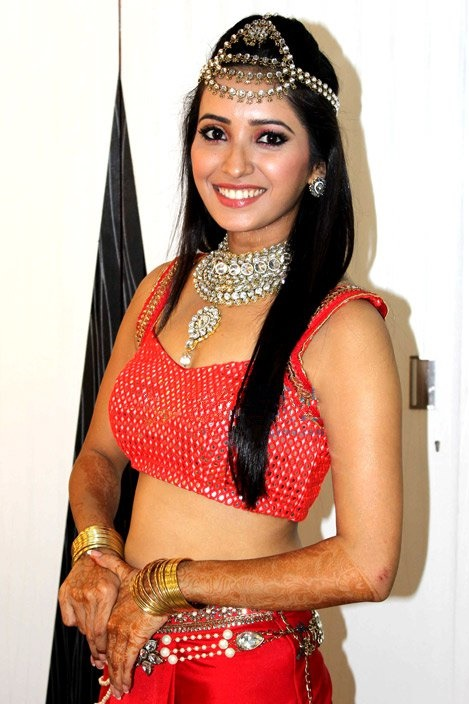 Asha Negi at the 13th Indian Telly Awards 2014